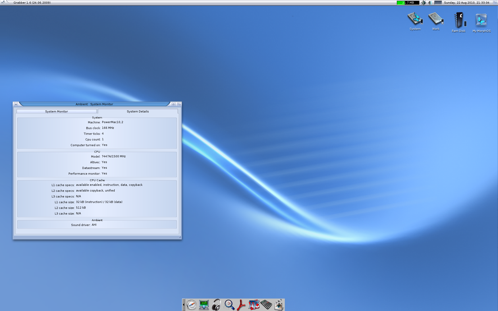 Screenshot of MUI based Ambient desktop from MorphOS